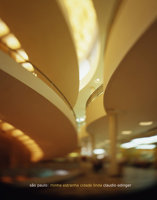 Livro São Paulo